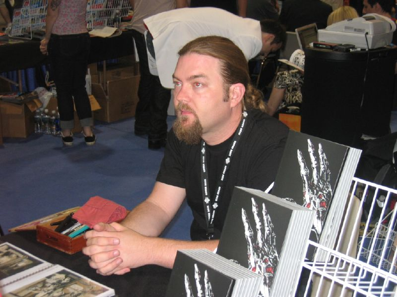 Super nice guy. He's gonna draw my zombie samurai comic one day. As soon as I write it.